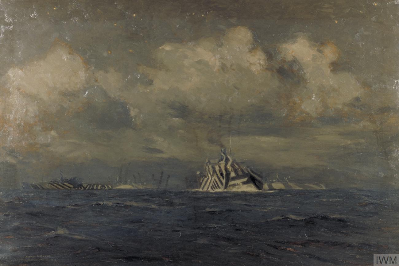 Dazzle-painting' was a form of camouflage, and was particularly effective in moonlight. Wilkinson was responsible for the introduction of the 'dazzle' painted effect. As is evident in this image, the paint designs result in it becoming difficult to make out the shape of the vessel, the number of ships and the direction they are moving in. image: A night scene showing a convoy of 'dazzle' painted ships. There appear to be two vessels in the distance to the left of the composition, and another two in the centre.